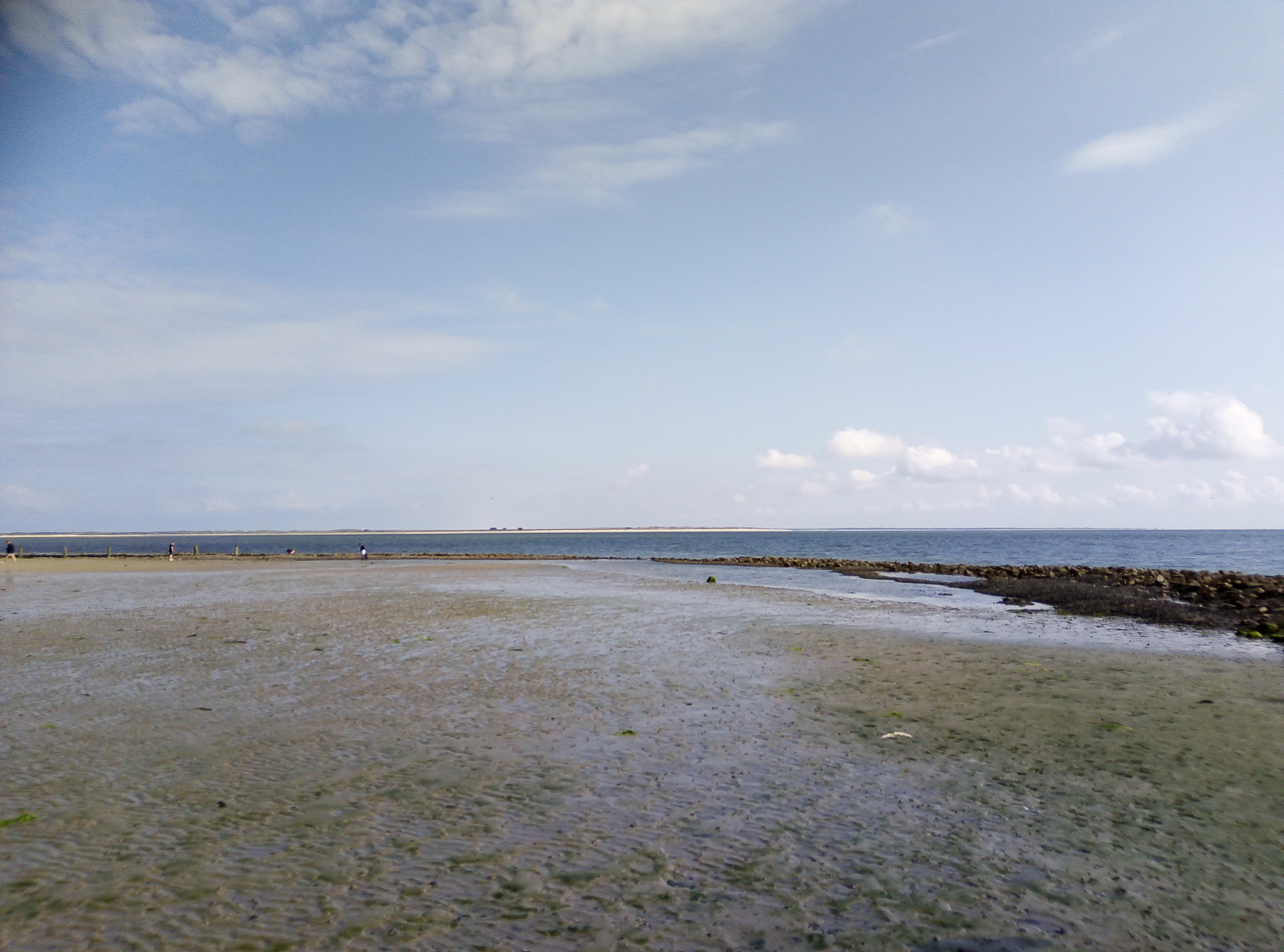 Schleswig-Holstein Wadden Sea National Park, List auf Sylt